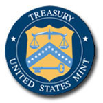 United States Mint Seal